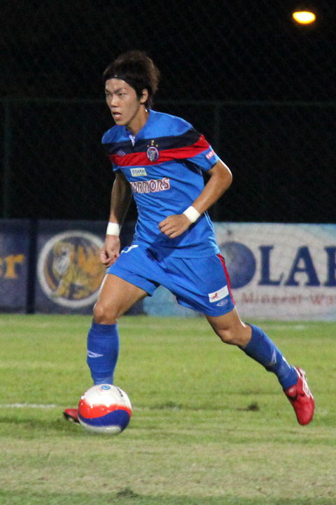 Tatsuro Inui playing against Home United in an S.League fixture at Choa Chu Kang Stadium on 04 March 2012.